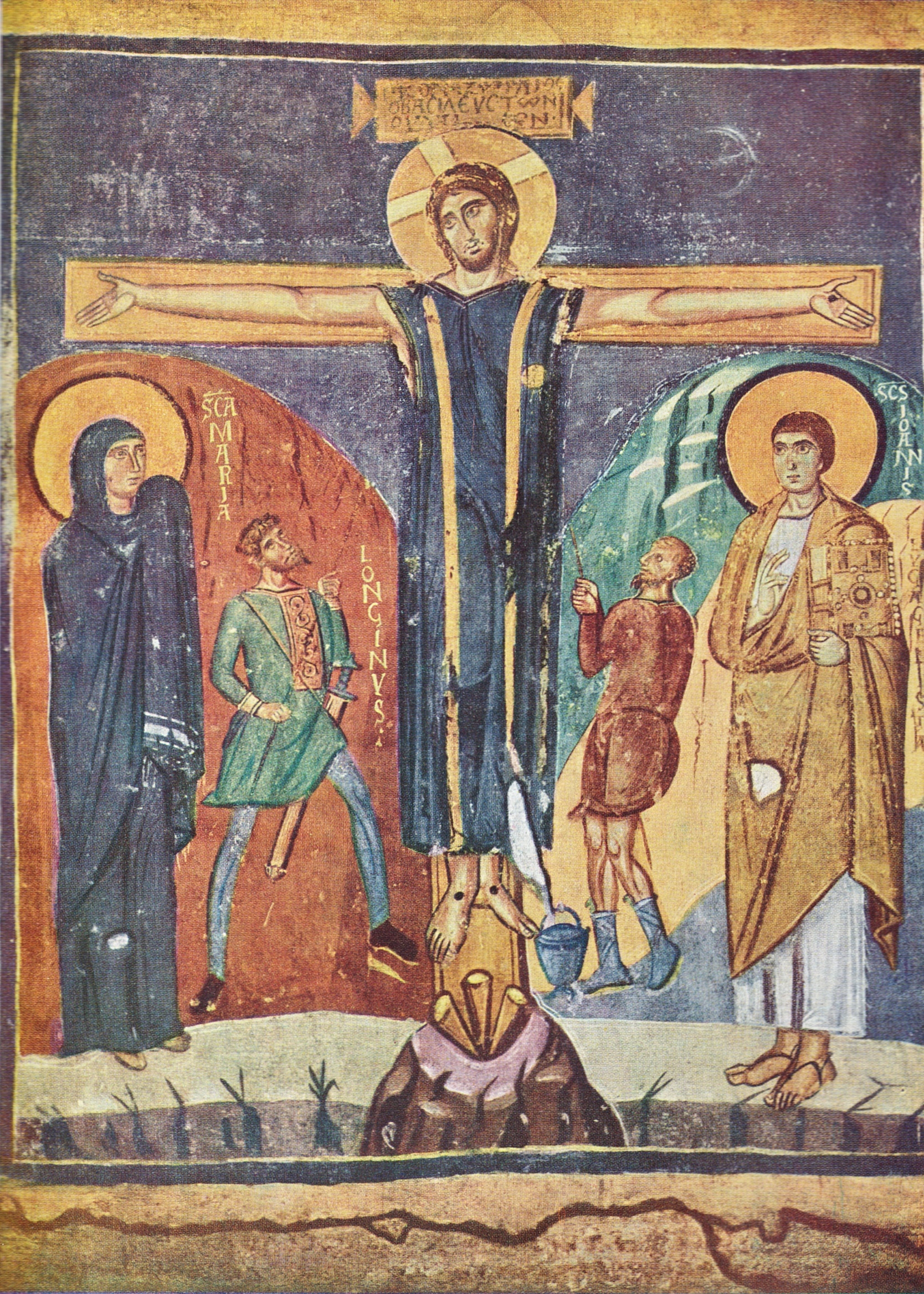 Crucifixion, fresco dated 741/752, in Santa Maria Antiqua, Rome